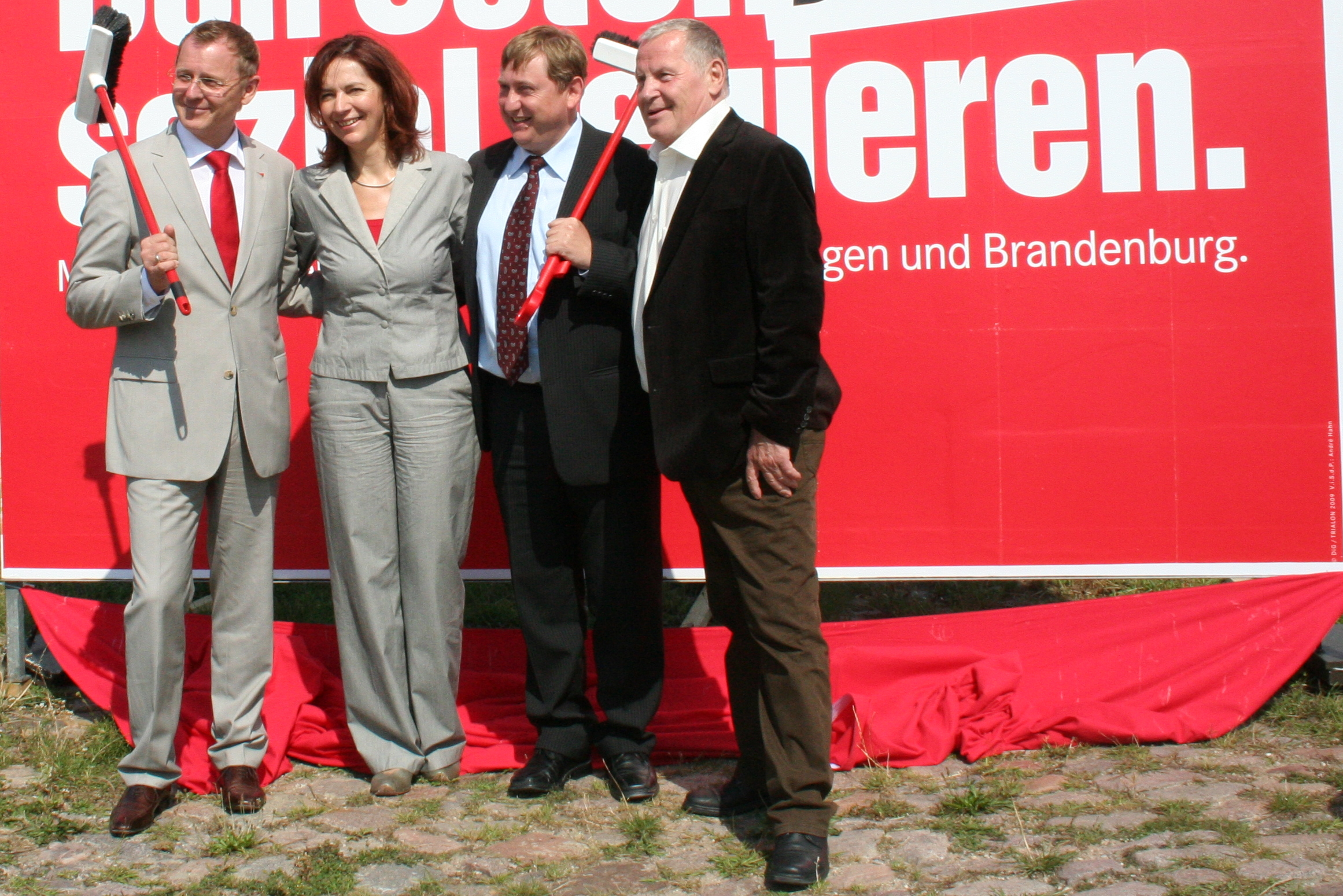 German Left Party politicians Bodo Ramelow, Kerstin Kaiser, André Hahn, and Lothar Bisky in Dresden